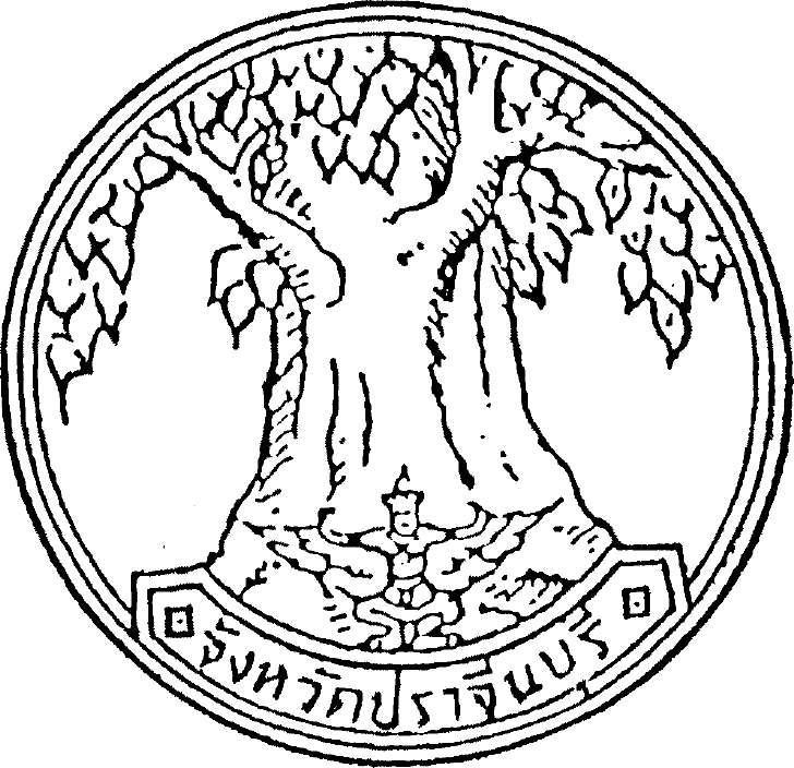 Provincial seal of Prachinburi province.